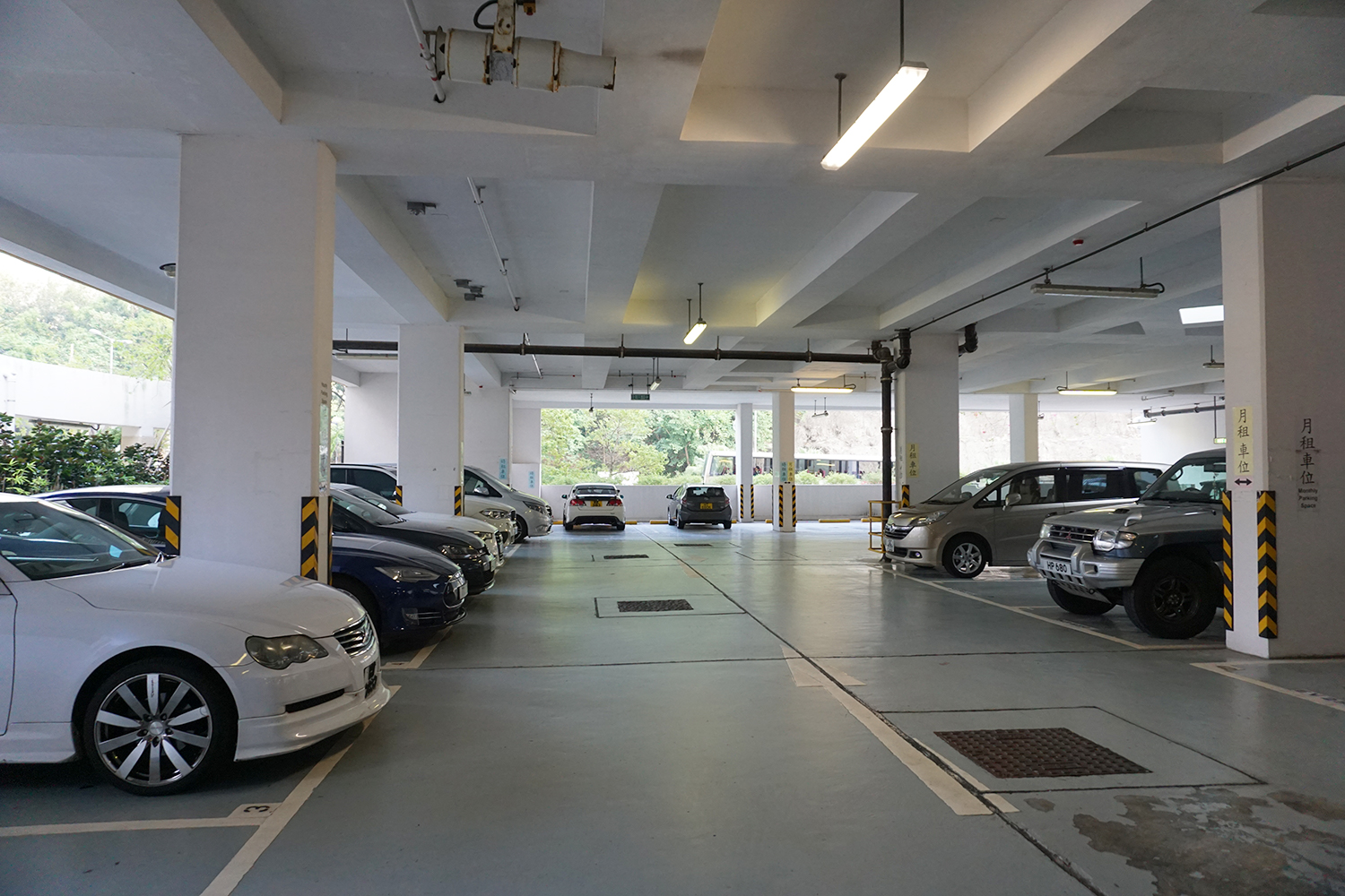 Hung Hom Estate in Whampoa, Hong Kong.